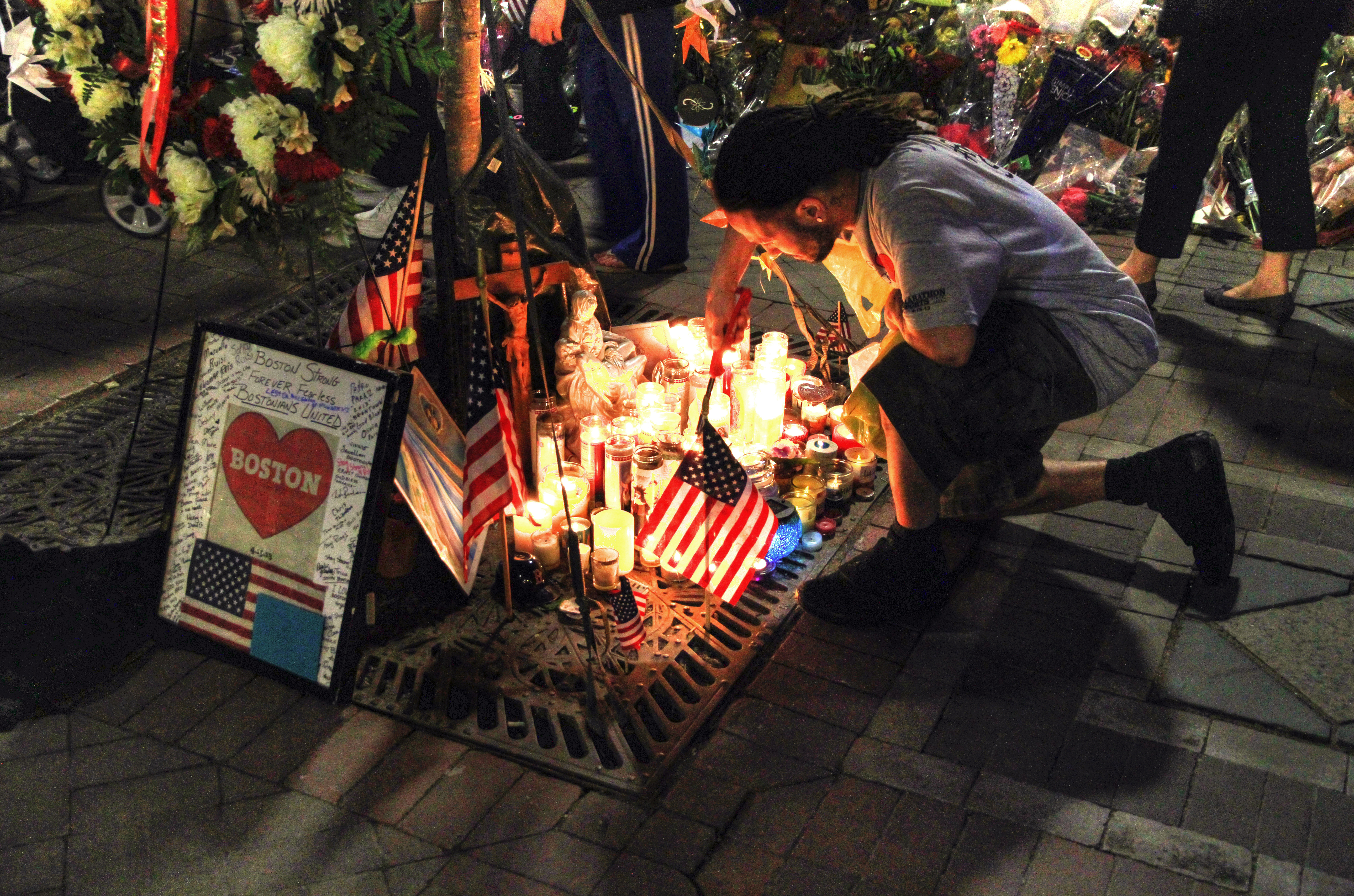 Remembering the victims of the Boston Marathon bombings in Copley Square of Boston, Massachusetts.